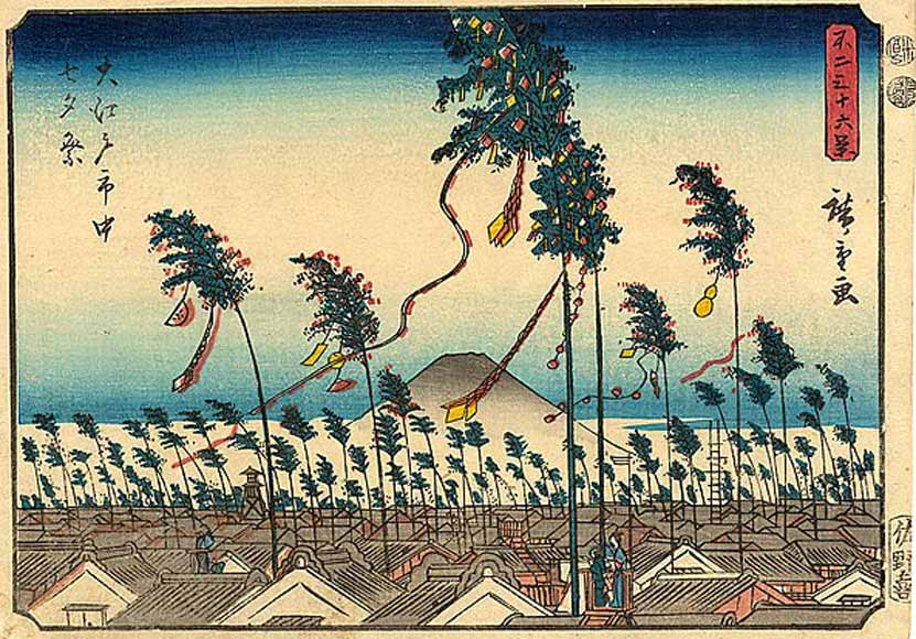 Tanabata Festival in Edo (Japanese: 大江戸市中七夕祭, Ōedo shichū tanabata matsuri). No. 11[1] (or No. 3[2]) in the series Thirty-six Views of Mount Fuji (first version).